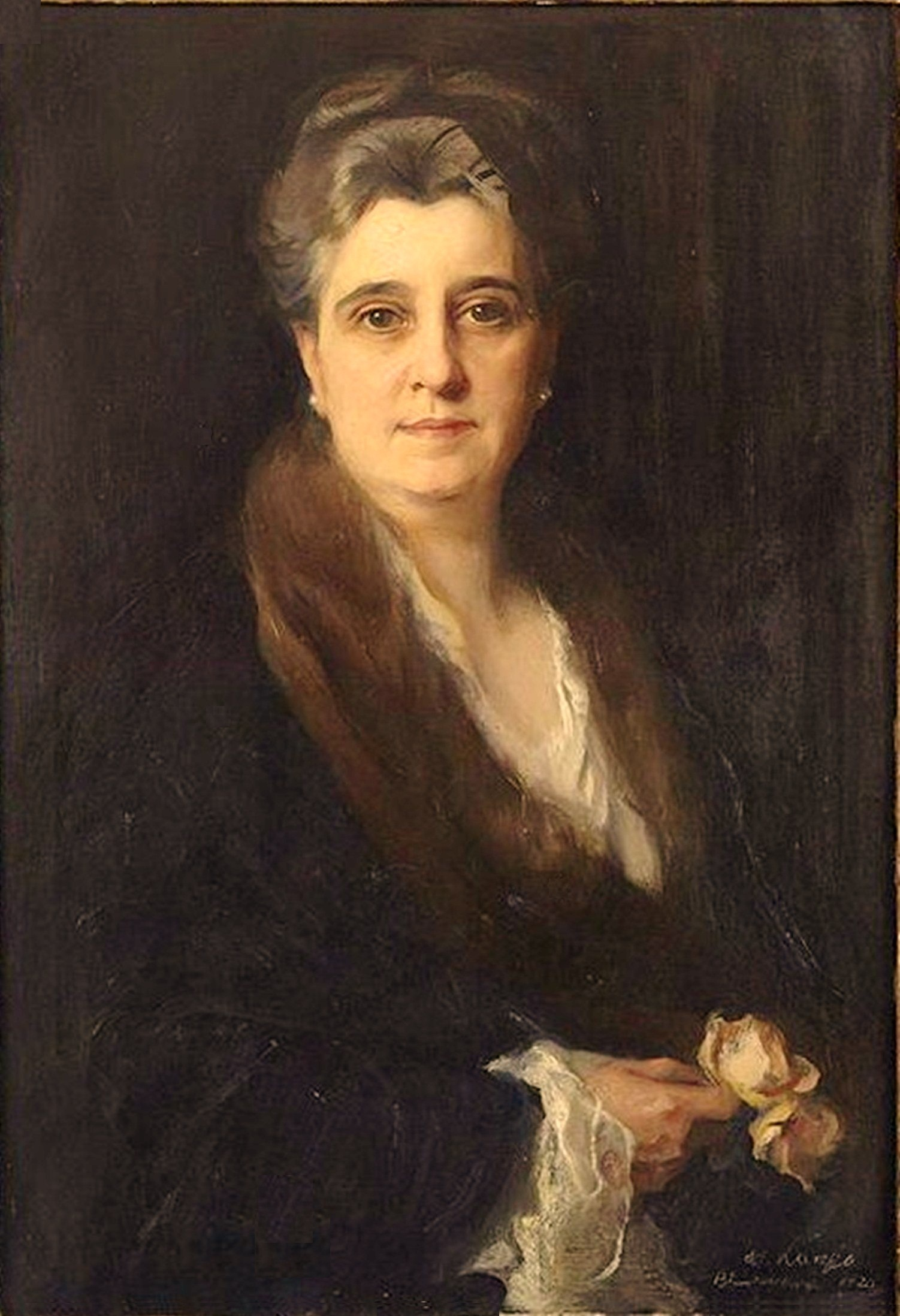 Lydia Édith Eustis was born in New Orleans (United States) on November 27, 1871. She is the daughter of Allain Eustis and Anaïs de Sentmanat (Saint Manat). His family, of Marigny and Eustis, are two of the founders of New Orleans. His maternal grandfather, Bernard de Marigny, developed the Faubourg de Marigny and the north coast of the city after being president of the Senate of the State of Louisiana. His paternal grandfather, George Eustis, was a benefactor of the University of Louisiana (now Tulane University) and founder of the Pontchartrain Railroad. His father Allain Eustis was honorary vice-consul in Brazil and his brother James Biddle Eustis was a Judge Advocate during the Civil War and Chief Justice of the Supreme Court of Louisiana for many years, a member of the House of Representatives and a member of the Louisiana Senate and then Ambassador to Paris. The young Lydia Eustis spent her youth in Paris and New Orleans, surrounded by diplomats. Fluent in three languages, Lydia Eustis embarked on a career of twenty years as an accomplished soprano, having studied for years with Mrs Marie Trélat (1837-1914) at the Paris Conservatoire. She has performed in leading theaters across Europe and the United States, where she met her husband, Jonkheer John Loudon (born March 18, 1866 in The Hague and died November 11, 1955 in Wassenaar), a Dutch diplomat in Beijing, London, Tokyo, Paris and Washington. He was appointed Minister of Foreign Affairs in The Hague. John Loudon and Lydia Eustis were married in Paris in the 16th arrondissement on January 29, 1906. The couple had no children. Lydia Édith Eustis has a sister, Anita Maria Eustis, wife of Georges Kinen, social singer and also a pupil of Marie Trélat. The two sisters frequently sang in the aristocratic salons of Paris, including that of Lord and Lady Henry Standish, in the early 1900s. Lydia Eustis died on December 24, 1957 in Wassenaar, The Netherlands, at the age of 86.